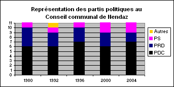 Nombre de représentants par parti au Conseil communal de Nendaz